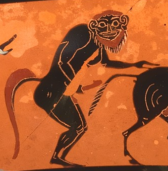 Sexually excited Satyr facing the viewer. Detail of an Athenian band cup by the Oakeshott Painter, ca. 550 B.C.